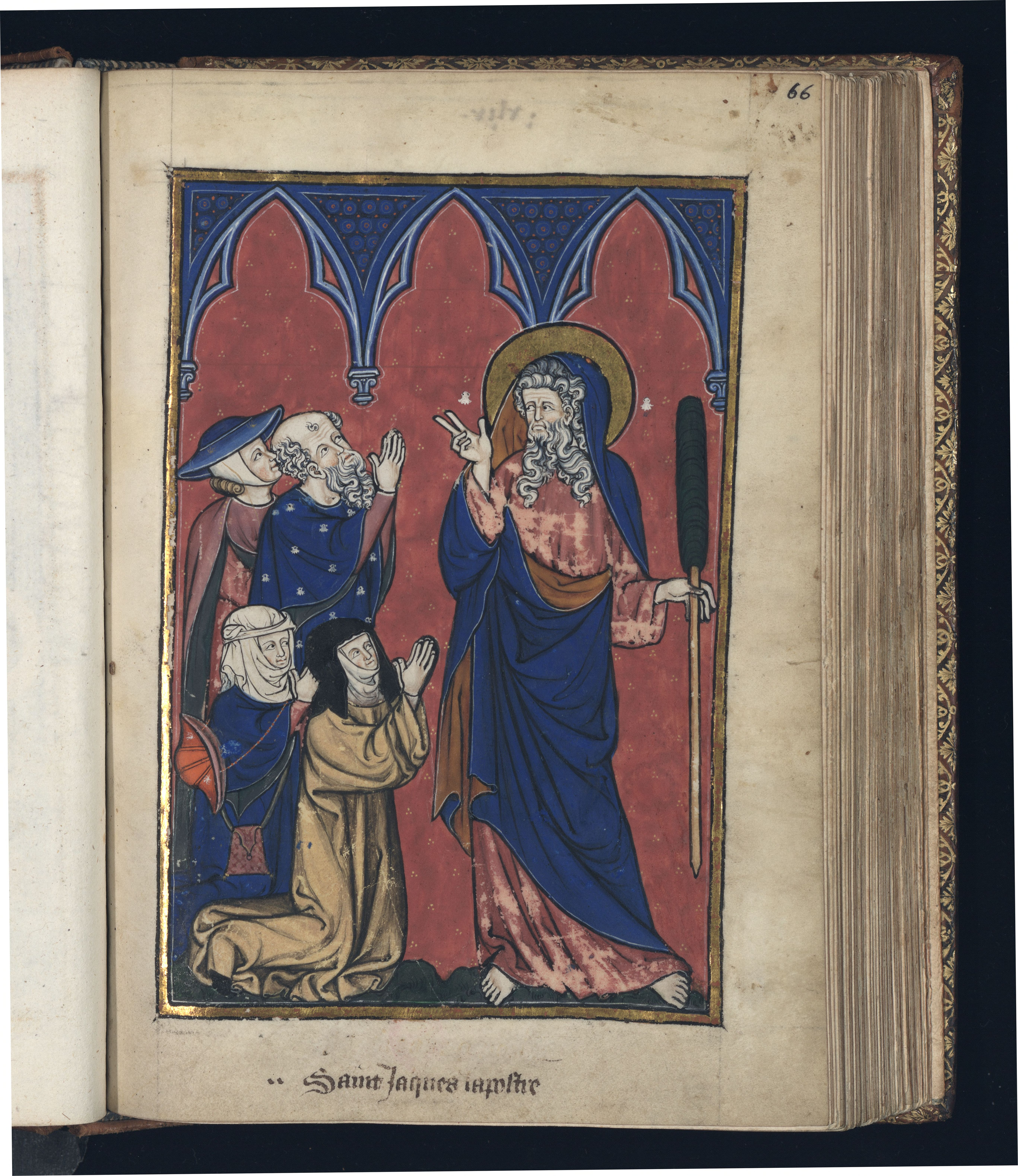 Saint James and Madame marie in the Livre d'images de Madame Marie.